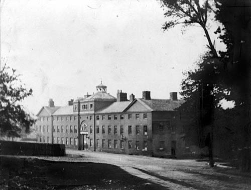 Picture of Soho Manufactory, built by Matthew Boulton.